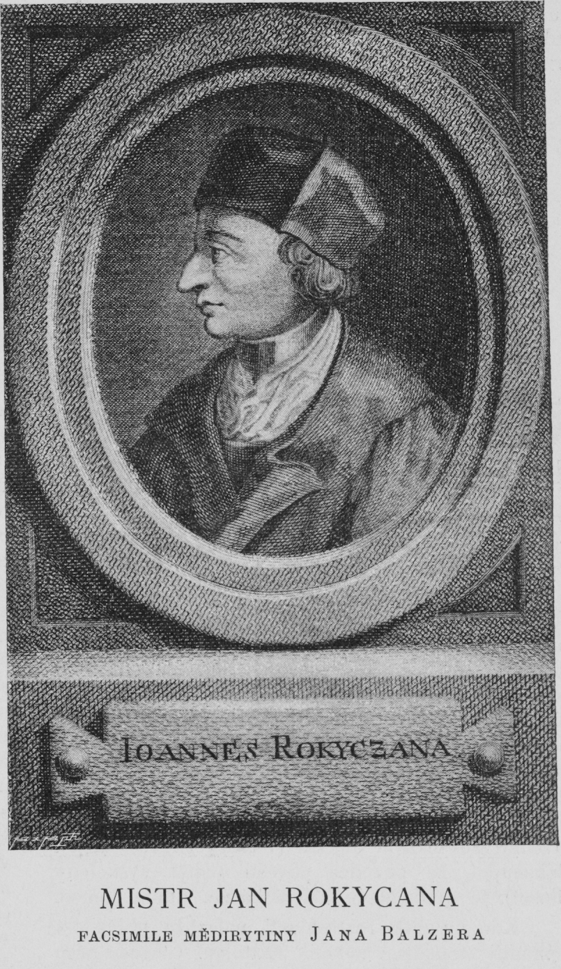 Portrait-copperplate of John of Rokycan (Jan Rokycana, 1396 - 1471), Hussite bishop.